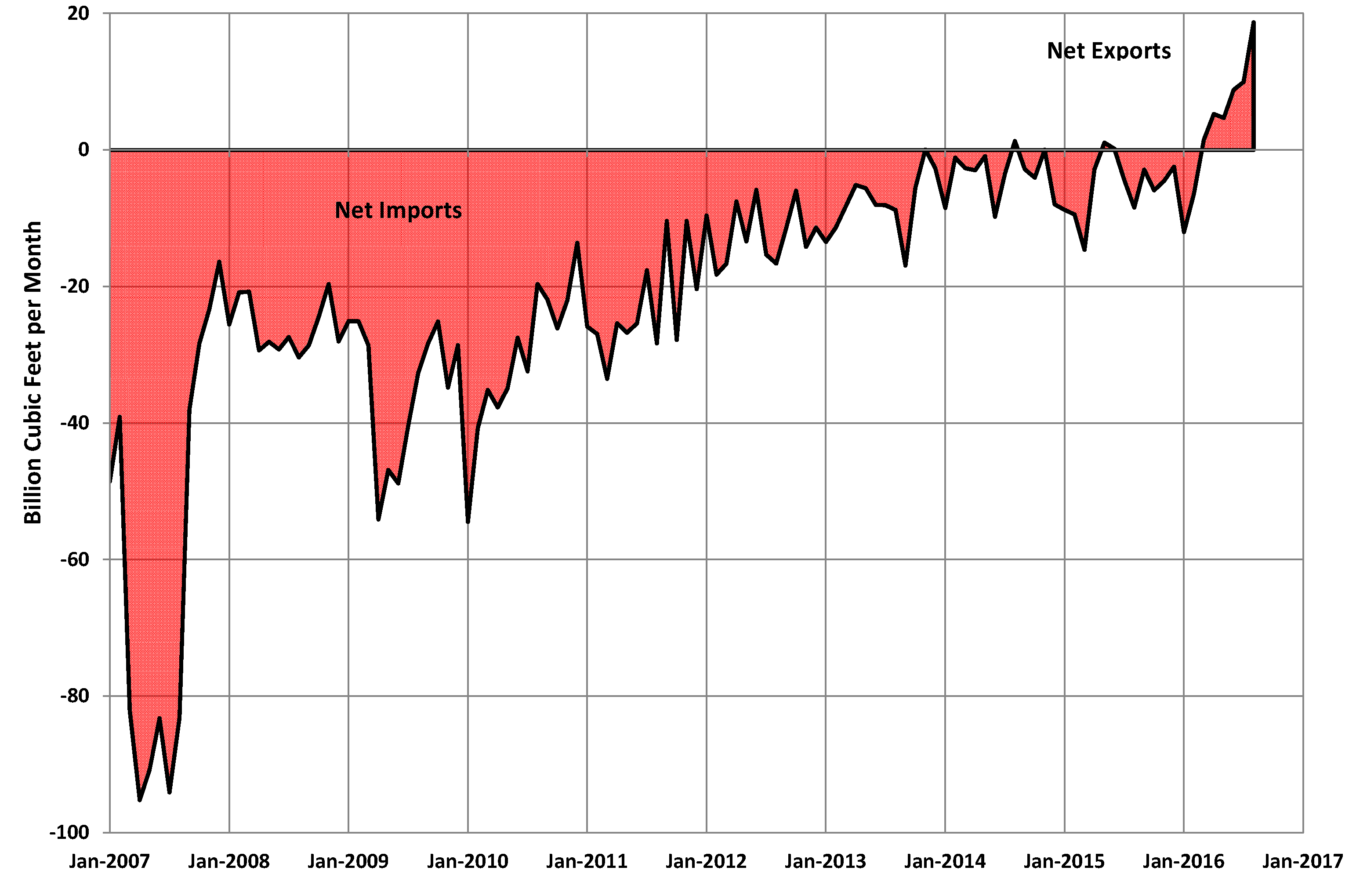 United States monthly net exports (exports minus imports) of liquified natural gas, 2007-2016. Data from US EIA